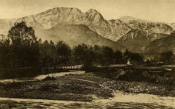 Postcard of Giewont, Tatra mountains